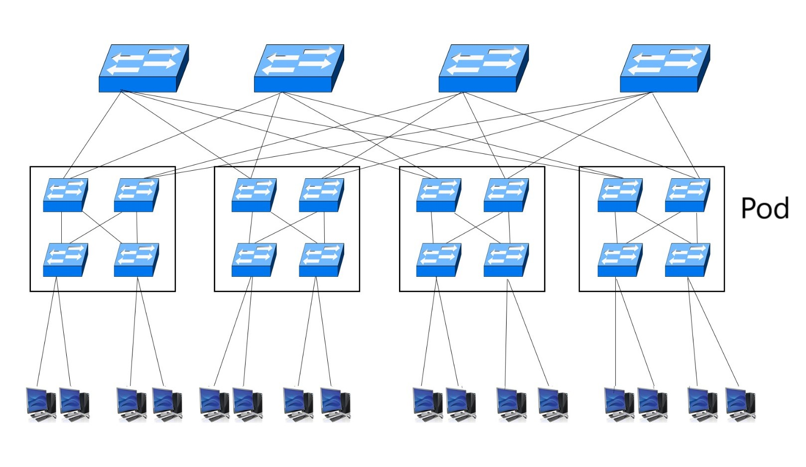 topologia di rete per data center fat tree